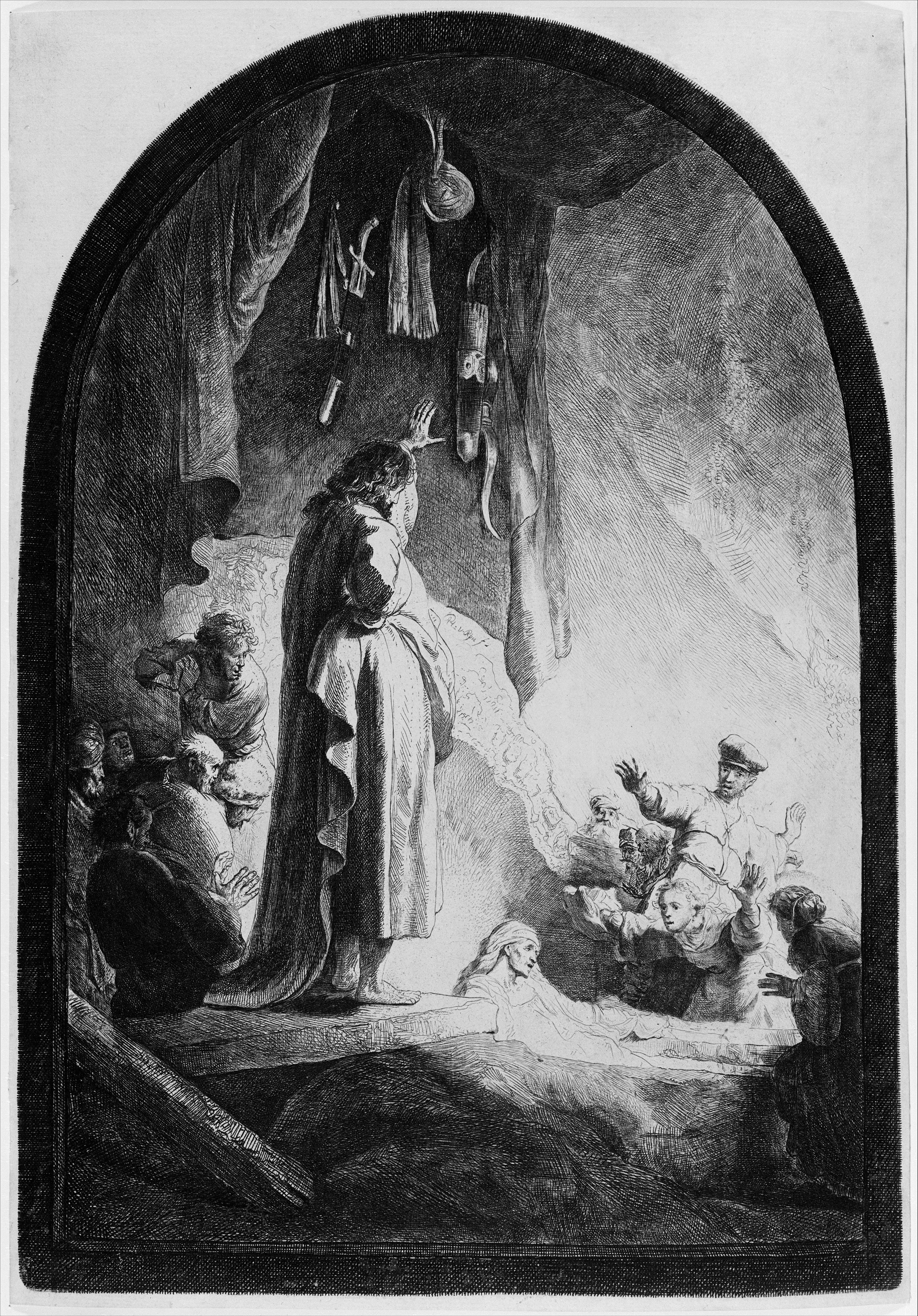 Print; Prints